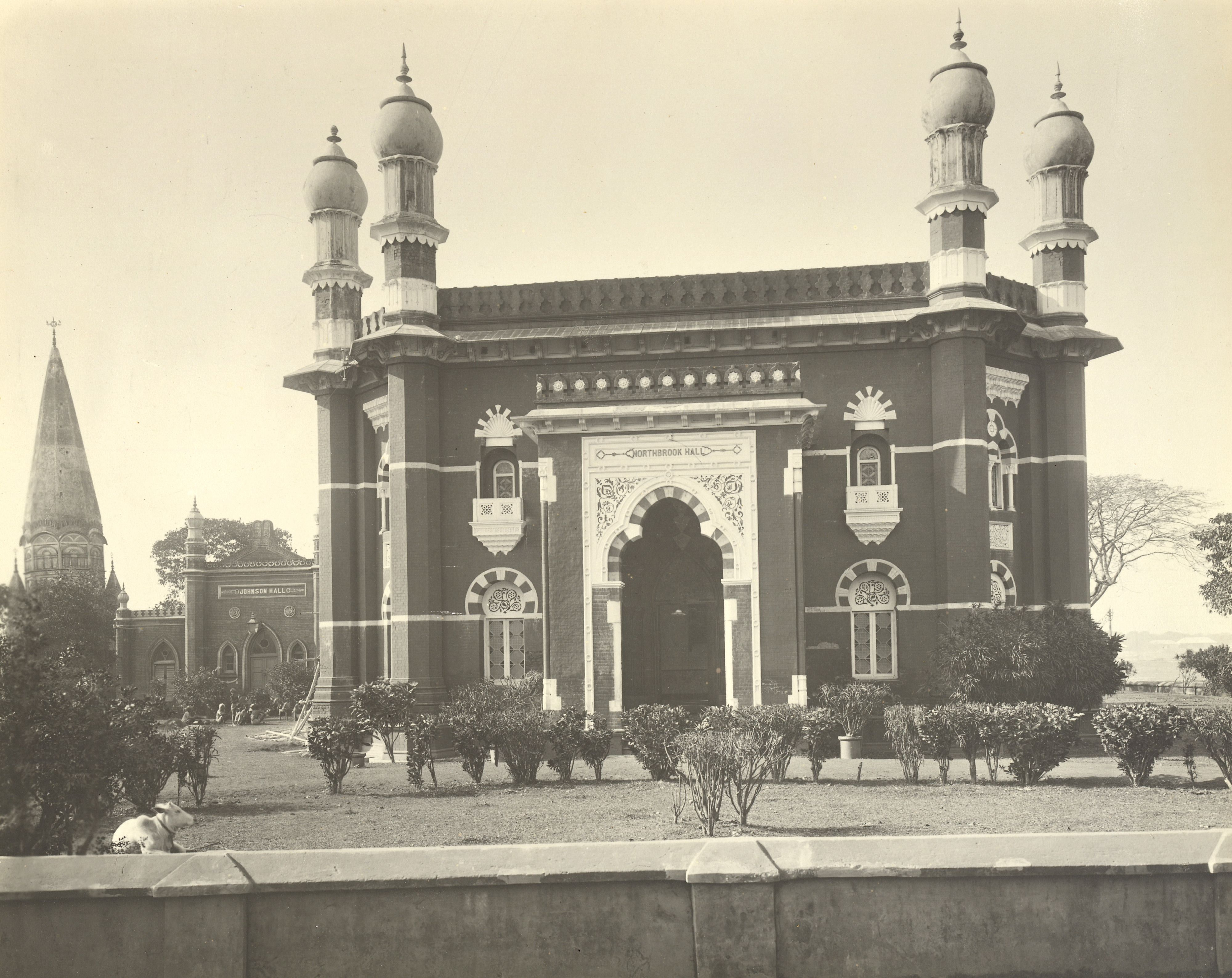 Photograph taken by Fritz Kapp in 1904 of buildings in Dacca (now Dhaka), part of an album of 30 prints from the Curzon Collection. The view is of Northbrook Hall designed in the so-called Indo-Saracenic style, with Johnson Hall, in a similar style, visible in the background. The buildings may have been attached to Dhaka University at this date, but later Northbrook Hall functioned as the Town Hall.